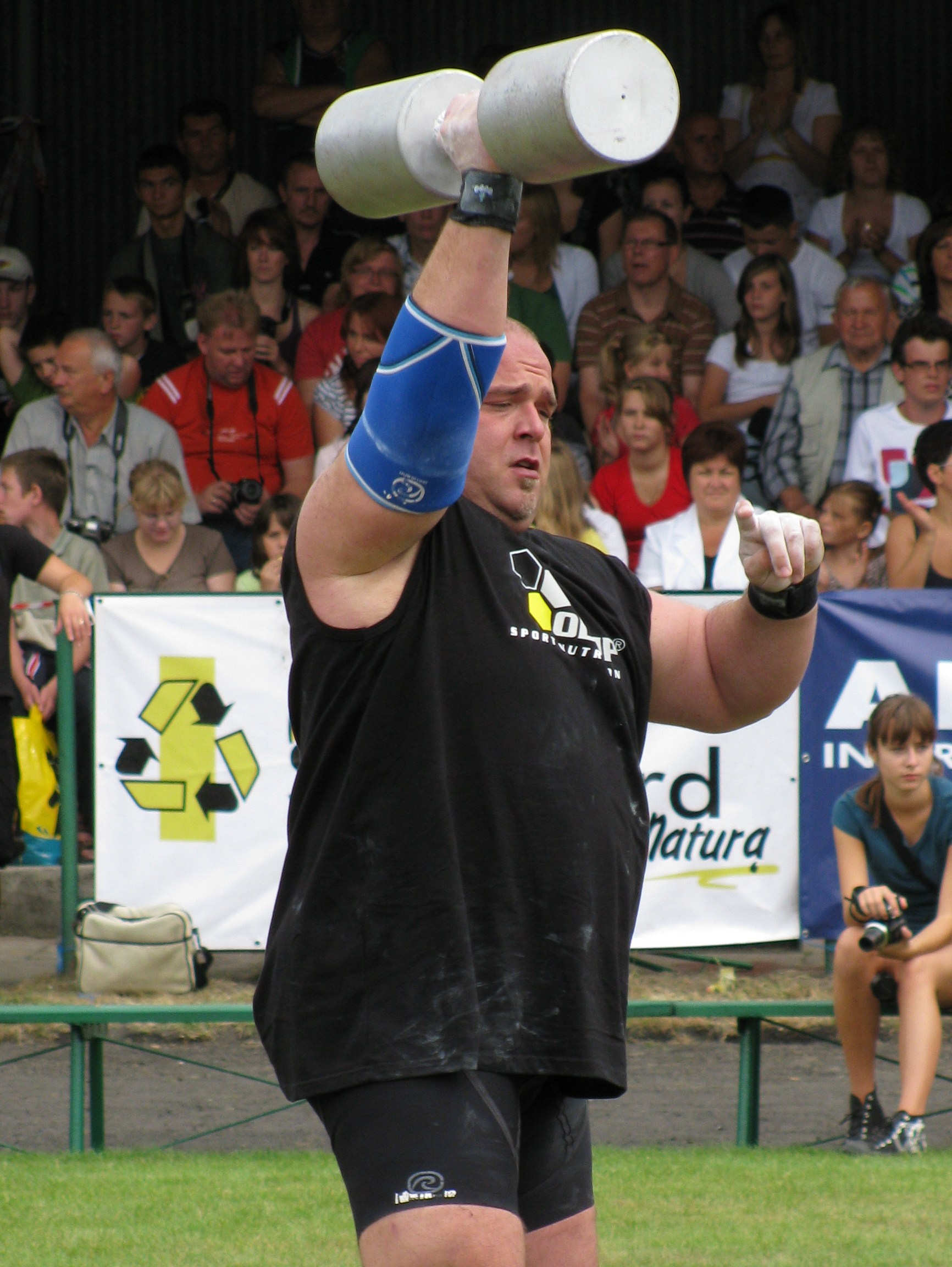 Lubomir Libacki - a strength athlete from Poland